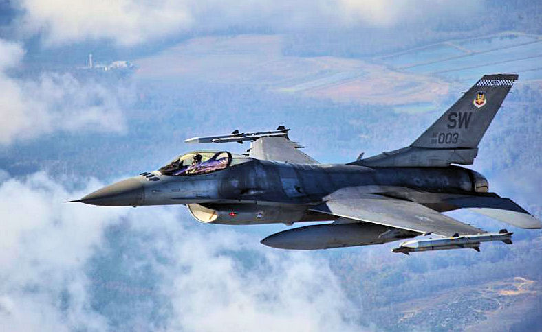 Capt. Matthew Feeman, an F-16 alert pilot from Shaw's 55th FS flies F-16C block 50 #98-0003, approaches a Cessna airplane, flown by South Carolina's Civil Air Patrol, to initiate a 'head butt' as part of exercise Fertile Keynote on November 19th, 2009. [USAF photo by SrA. Michael Cowley]